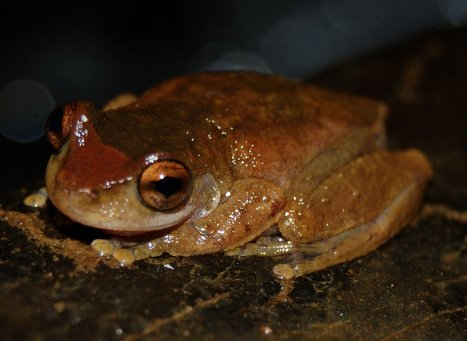 The Common Mist Frog (Litoria rheocola) of northern Australia.